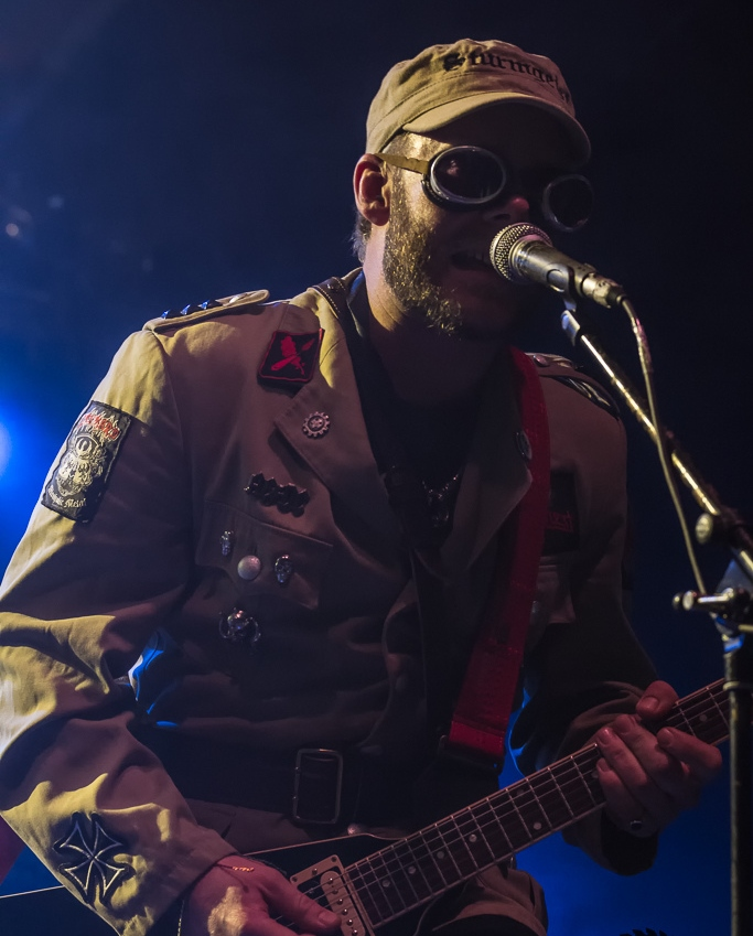 Cornelius Jakhelln of Solefald performing live at Ragnaroek 2013.